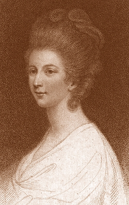 Charlotte Lennox, (1730–1804) (cropped version)